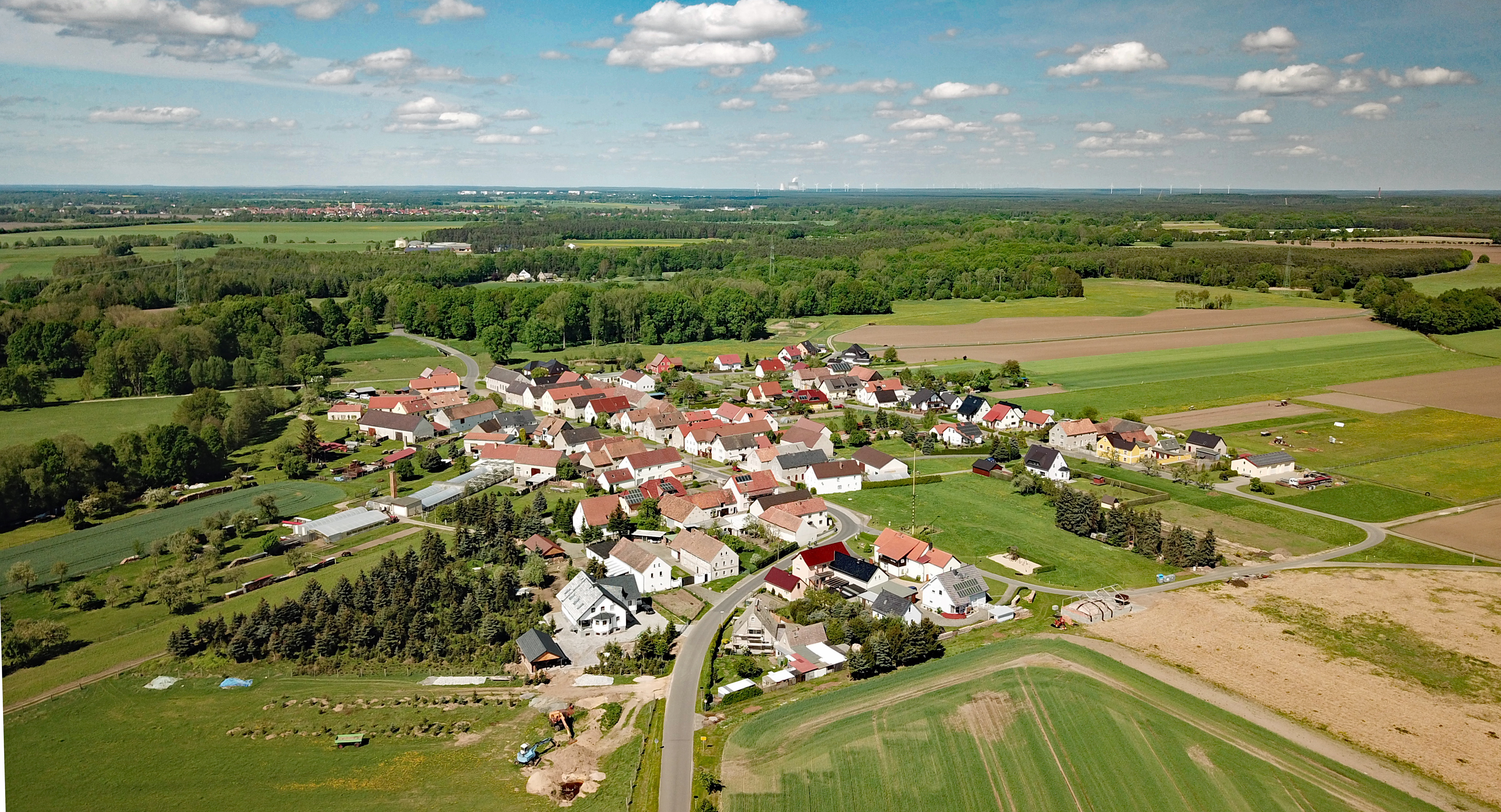 Kotten (Wittichenau, Saxony, Germany) Hornjoserbsce: Powětrowy wobraz Koćiny